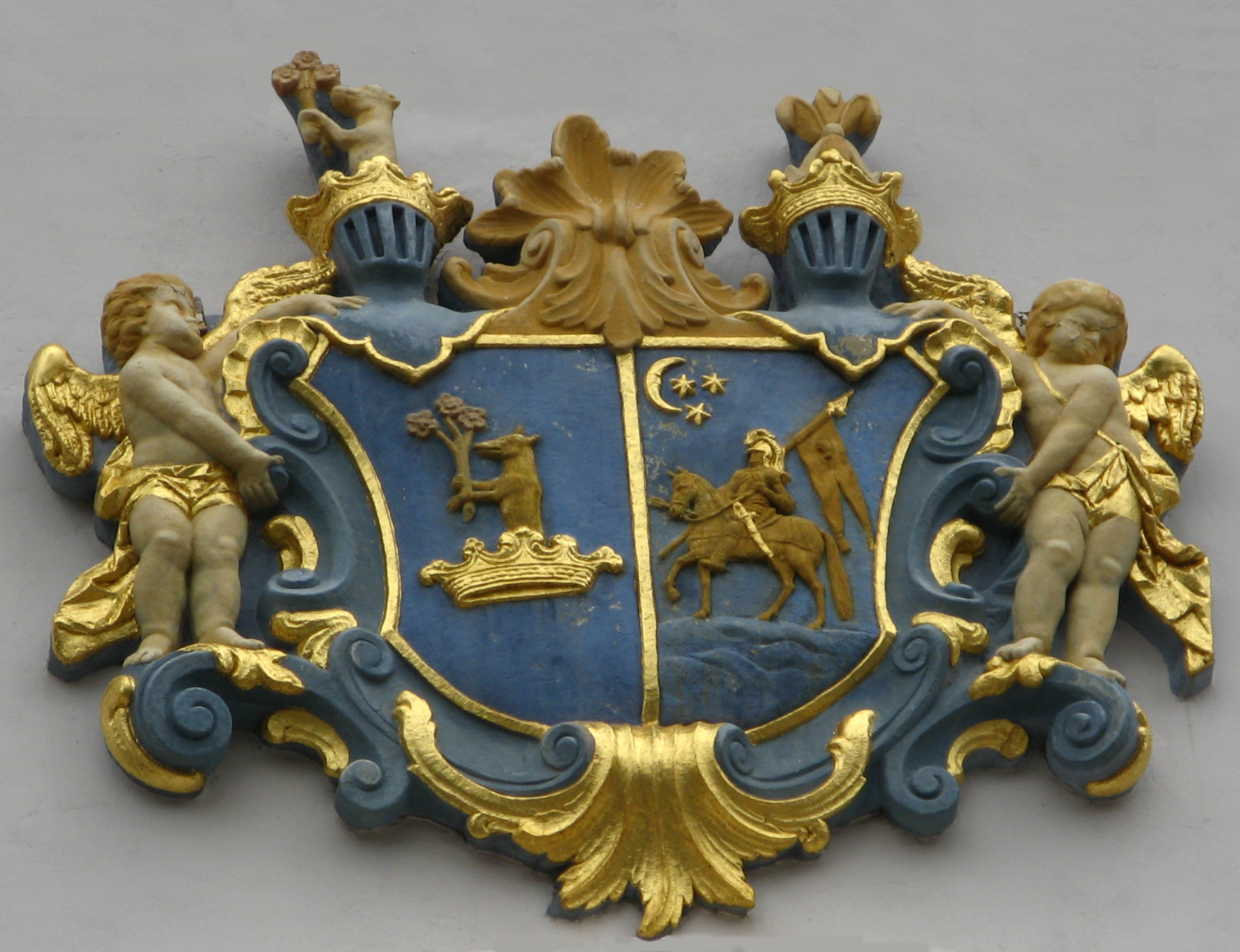 Coat of Arms of the Counts Révay (left) and Szunyogh (right) in Mošovce (Slovakia)